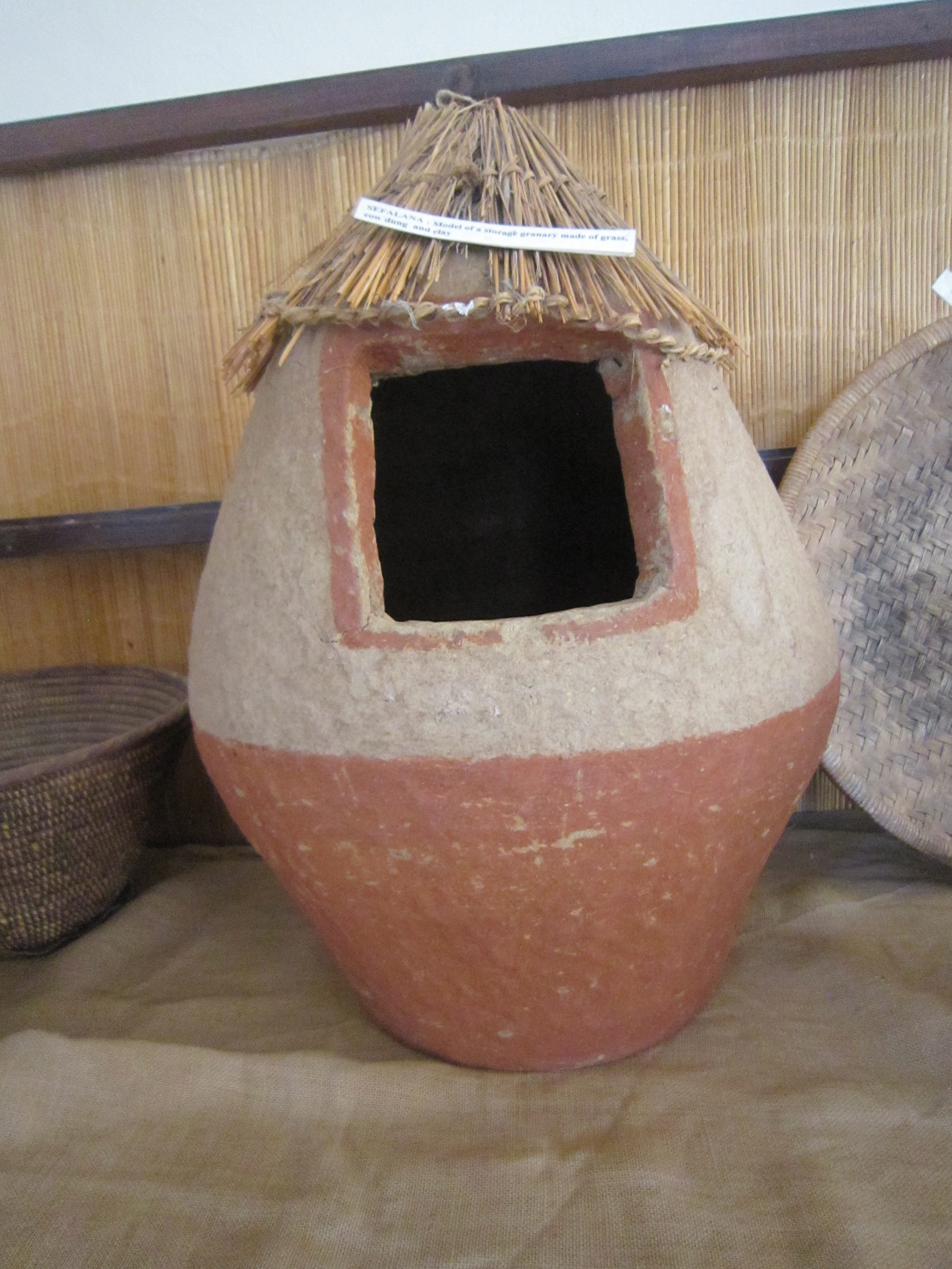 This clay pot makes up part of the collection at the Phuthadikabo Museum, Botswana.